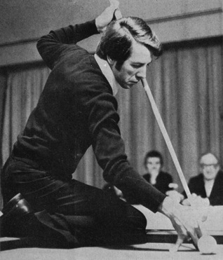 German carom billiards player